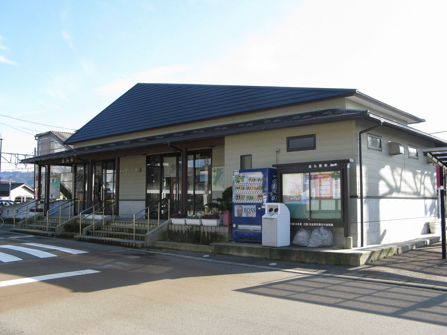 Kanemaru Station on the JR West Nanao Line, in the town of Nakanoto, Ishikawa Prefecture, Japan